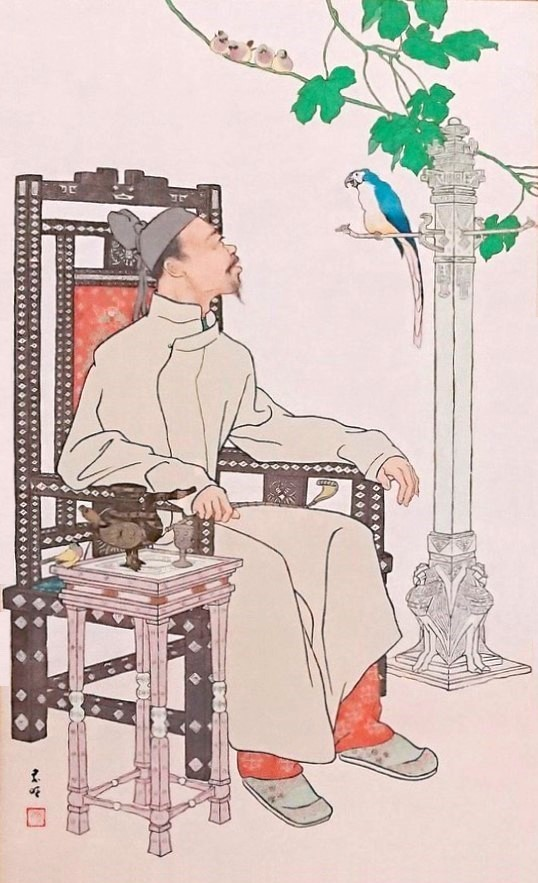 Yūki Somei: Listening to a bird